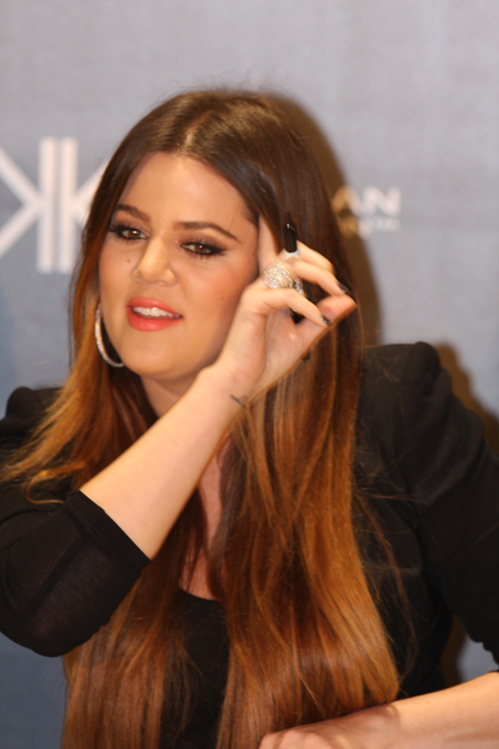 American reality television star Khloe Kardashian Odom in Sydney.